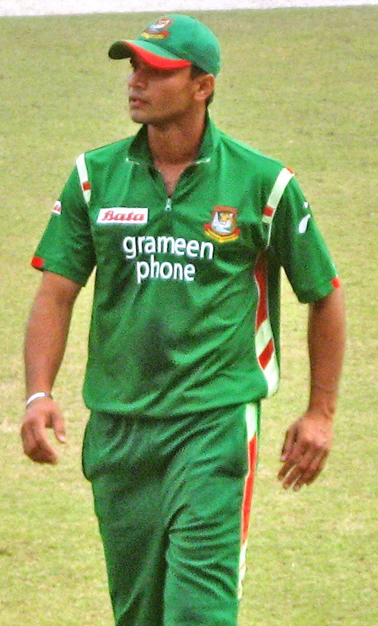 Mashrafe Mortaza fielding, 22 February, 2009, Dhaka SBNS